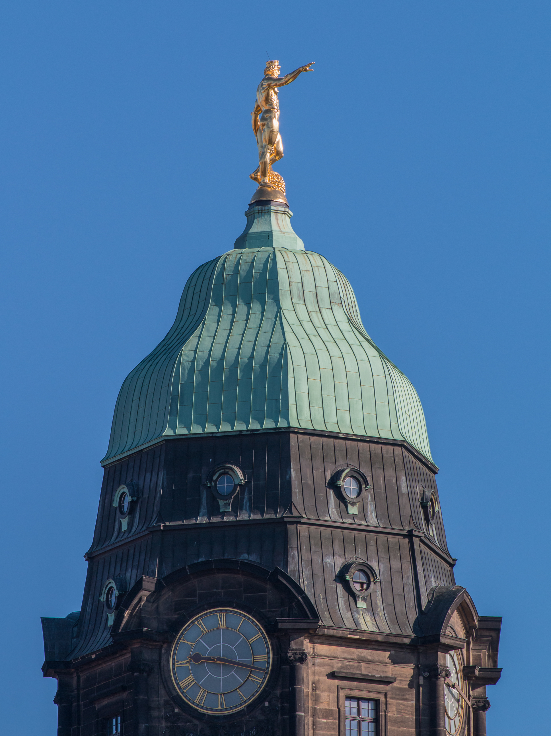 The golden town hall man on top of the New town hall, Dresden